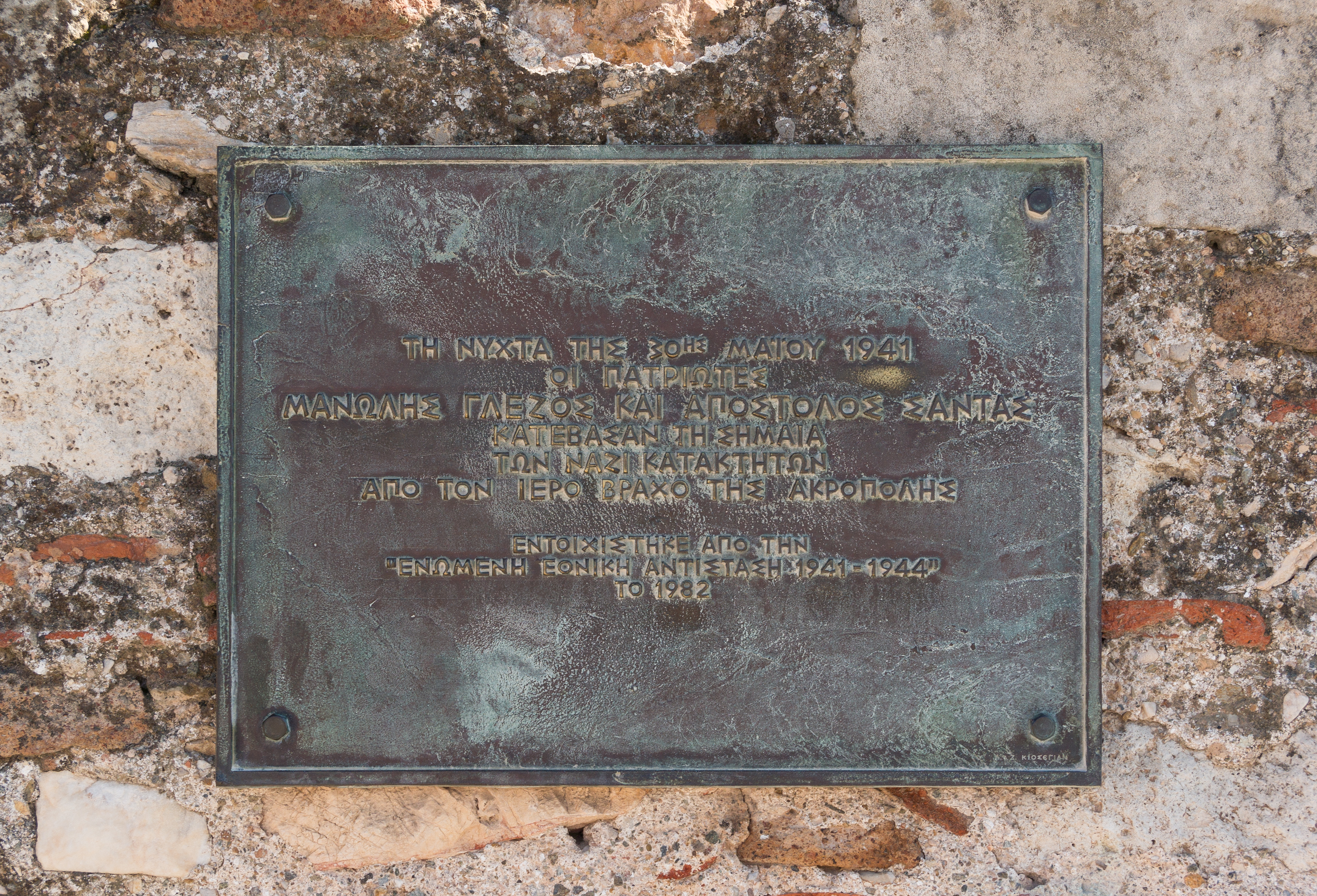 During the night of may, the 30th 1941, Manolis Glezos and Apostolos Santas dared to change the nazi flag on the Acropolis by the greek one. Remembering plaque on the Acropolis, Athens, Greece.